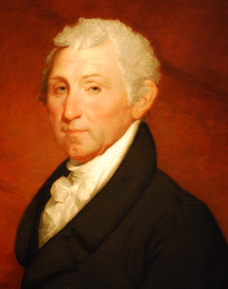 Portrait of James Monroe.